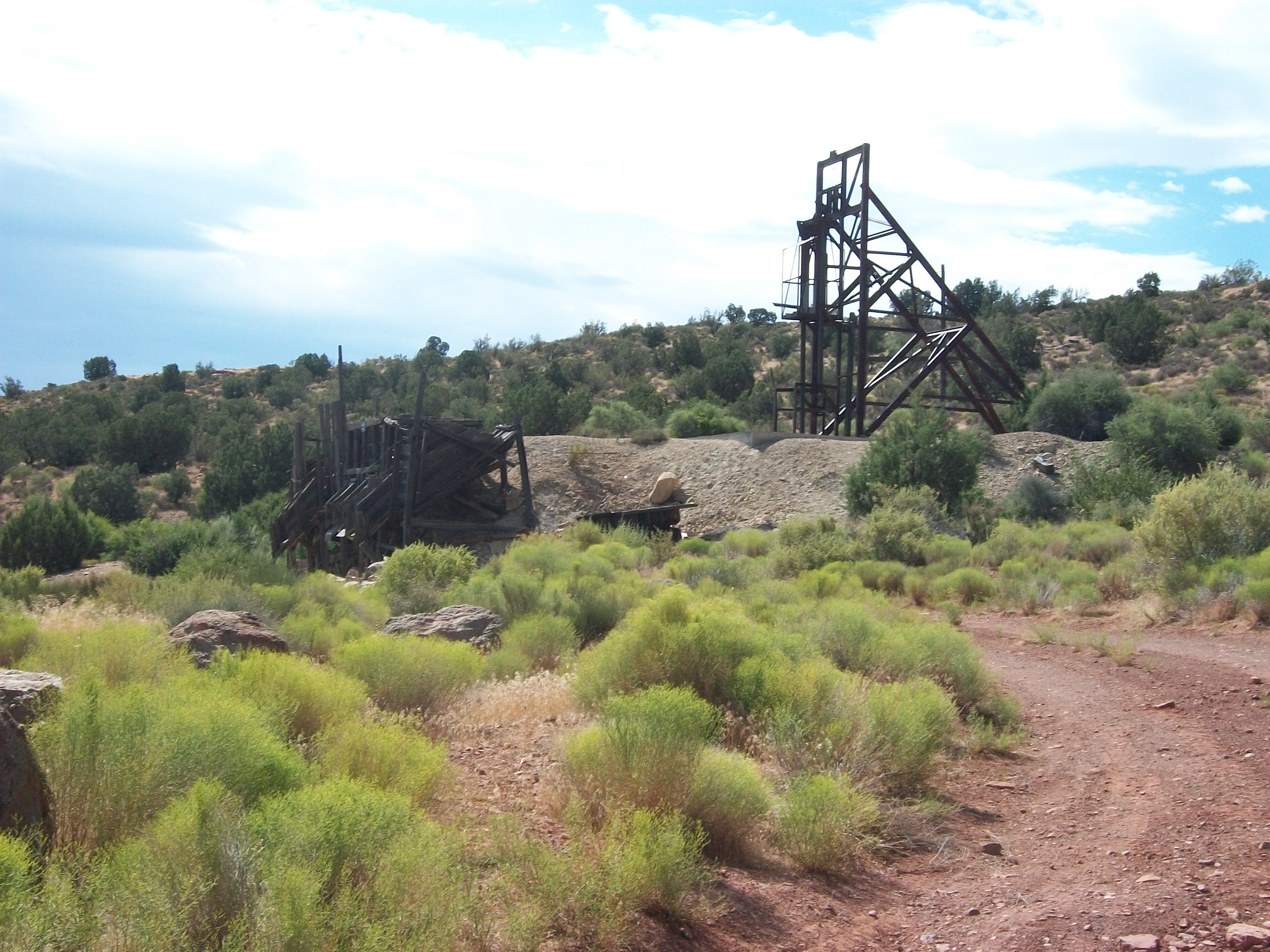 American Smelting and Refining Company (ASARCO) works in Silver Reef, Utah